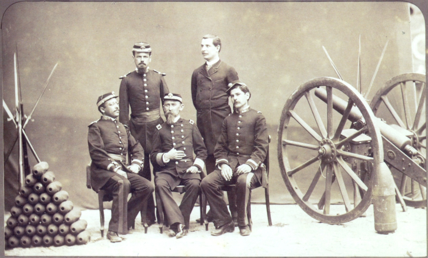 Brazilian officers next to a cannon, 1886.